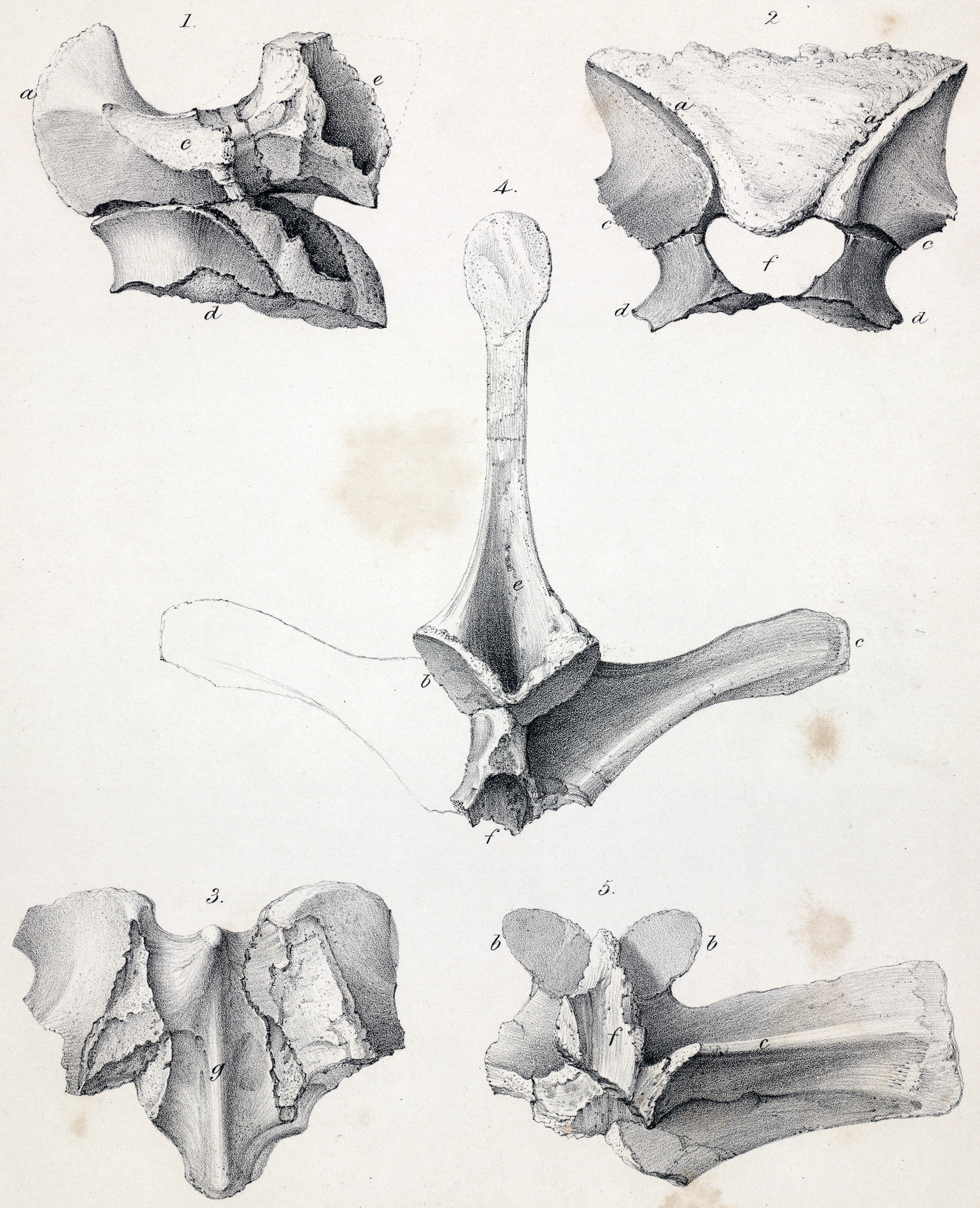 Poikilopleuron Bucklandi. Fig. 1. Side view of a portion of neural arch of vertebra. Fig. 2. Front view of the same fossil. FIg. 3. Upper view of the same fossil. Fig. 4. Back view of diapophysis (c) and neural spine. Fig. 5. Under view of the same vertebral fragment. The figures are two thirds natural size. From the Weald of Sussex.